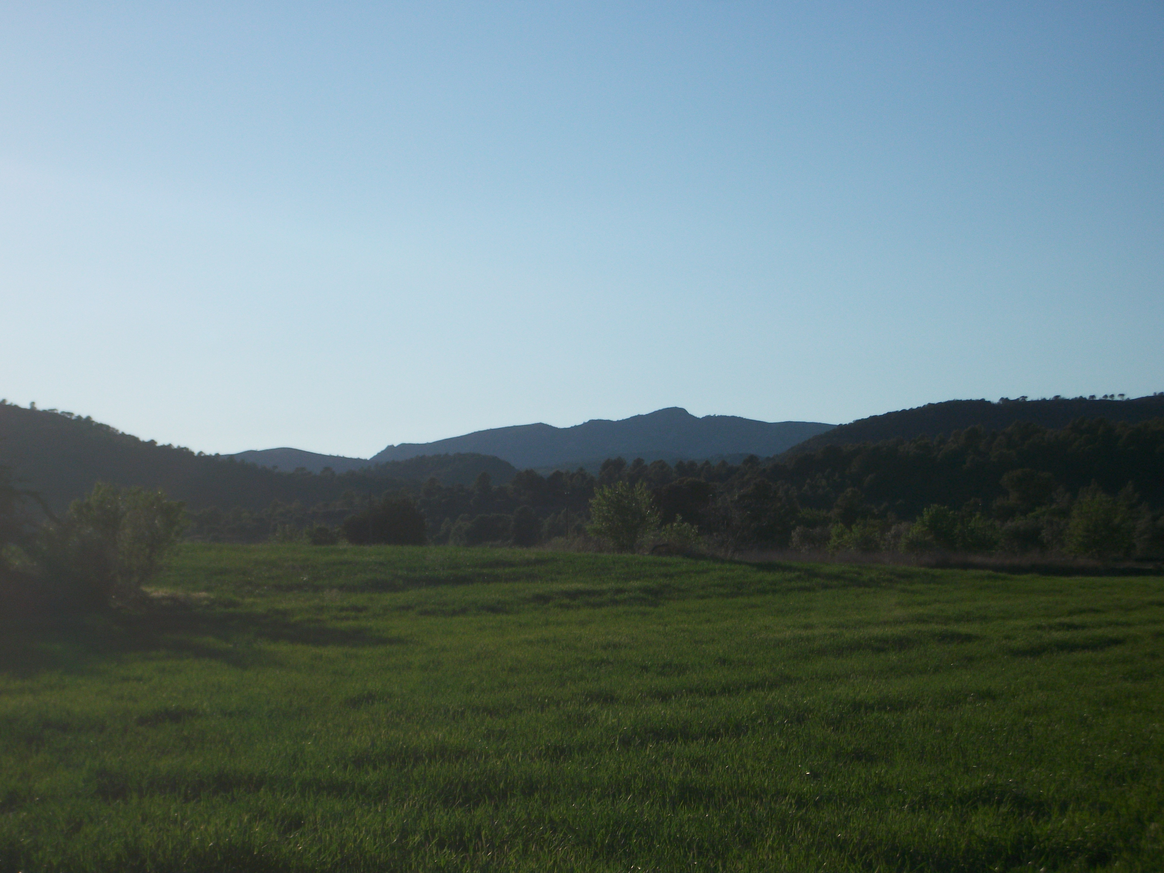 Montmell Range from Sant Jaume dels Domenys